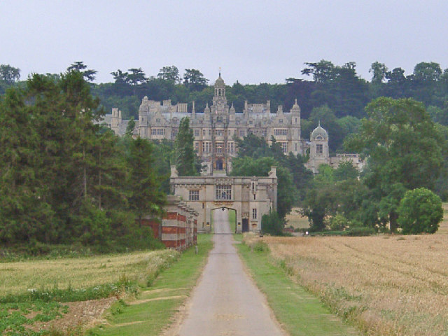 Harlaxton Manor, near Grantham. Owned by the University of Evansville, Indiana USA ( for more info). Harlaxton Manor was built in the 1830s for Gregory Gregory, a wealthy Nottinghamshire businessman, by Anthony Salvin to replace the original Elizabethan Manor House in Harlaxton Village.